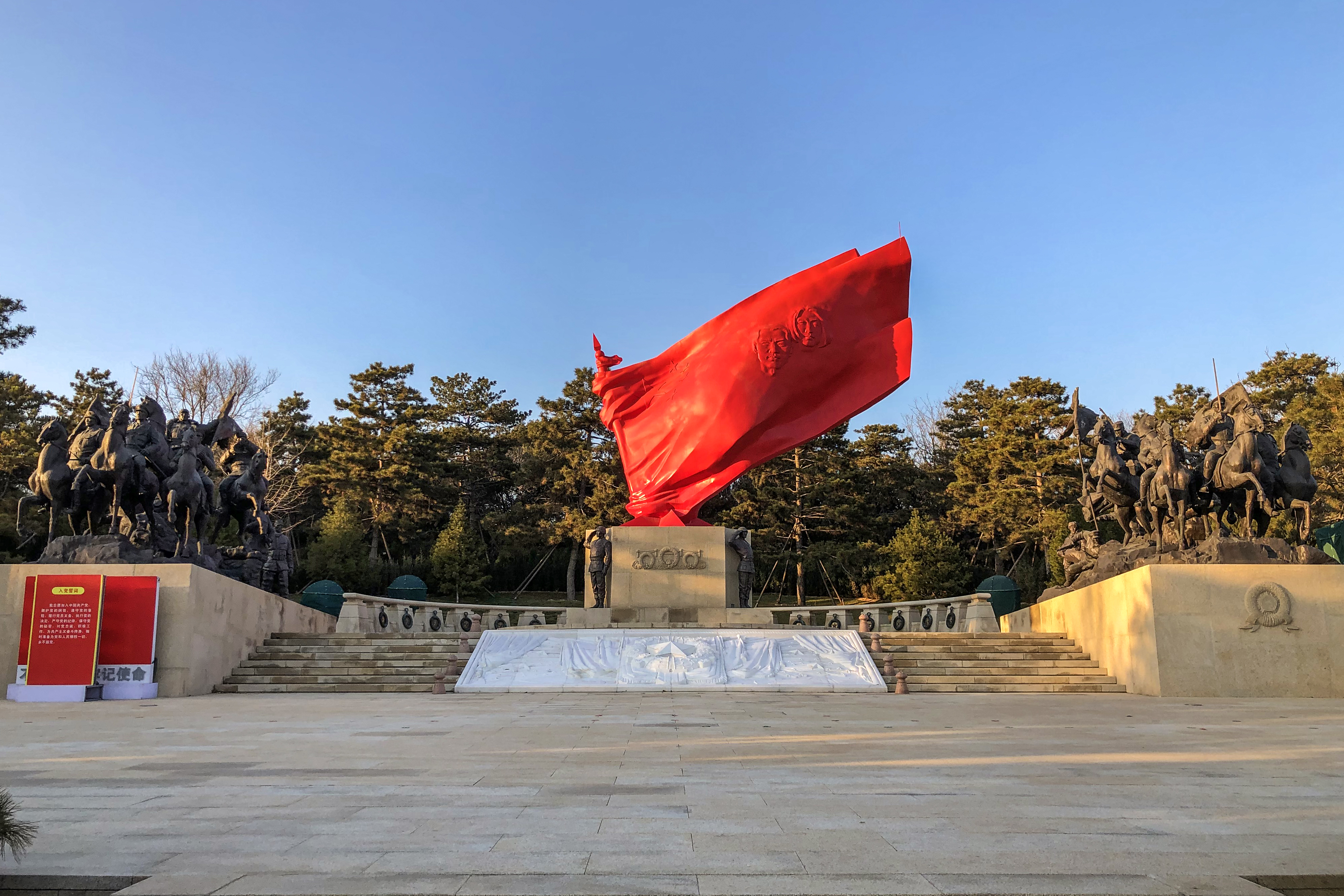 For memorial ceremonies.